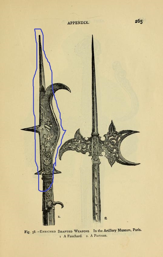 Interestingly this weapon is called a fauchard in a French museum and in the same book, a bill in an English museum. Is it a fauchard with an added hook or a bill with an added spear tip?